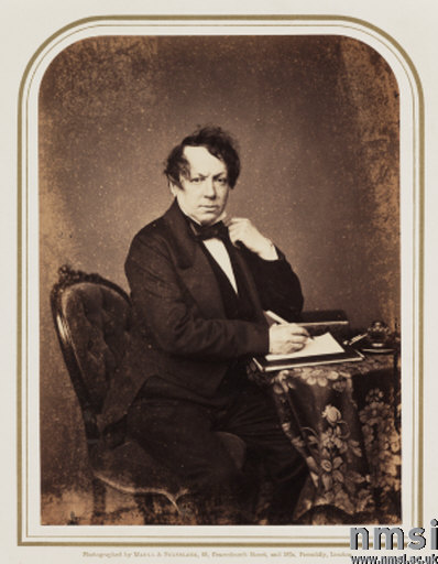 John Baldwin Buckstone, English actor and playwright. Image taken from the National Museum of Science and Industry web site .